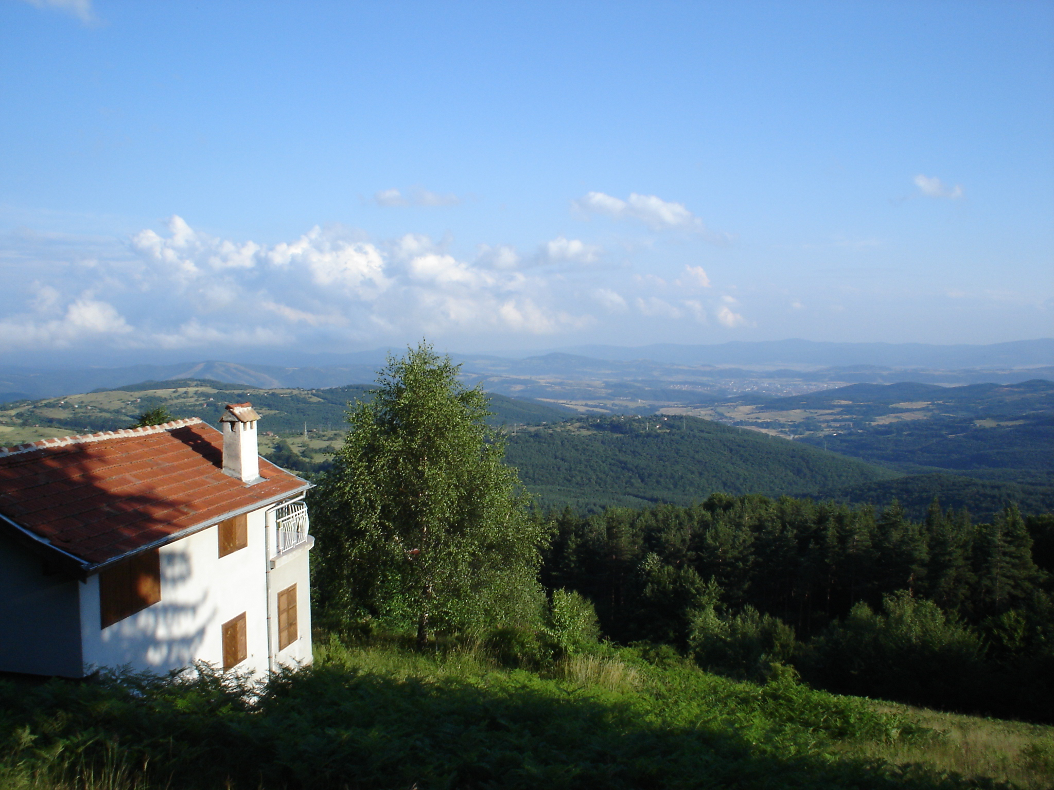 A view towards Panagyurishte from the Bulgarian mountain summer resort Panagyurski kolonii.